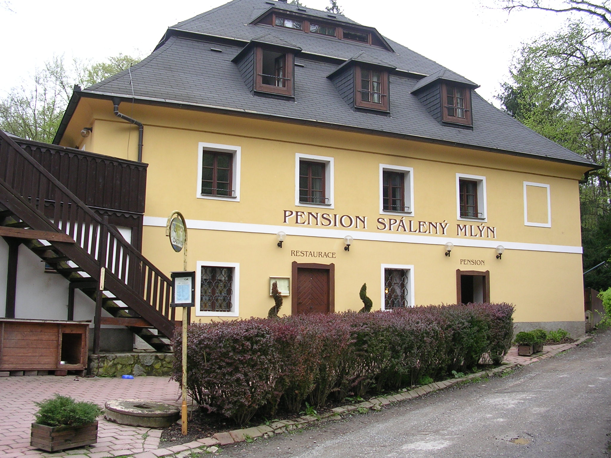 Líšnice, Central Bohemian Region, the Czech Republic. Spálený mlýn with fictional bus stop.